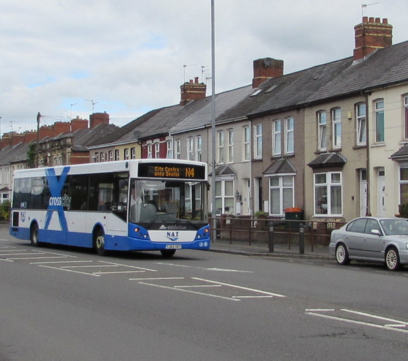 N4 NAT bus in Crindau, Newport. The NAT (New Adventure Travel) bus is heading towards the city centre on the A4051 Malpas Road, on bus route N4 from Bettws to Newport Retail Park via Market Square bus station.